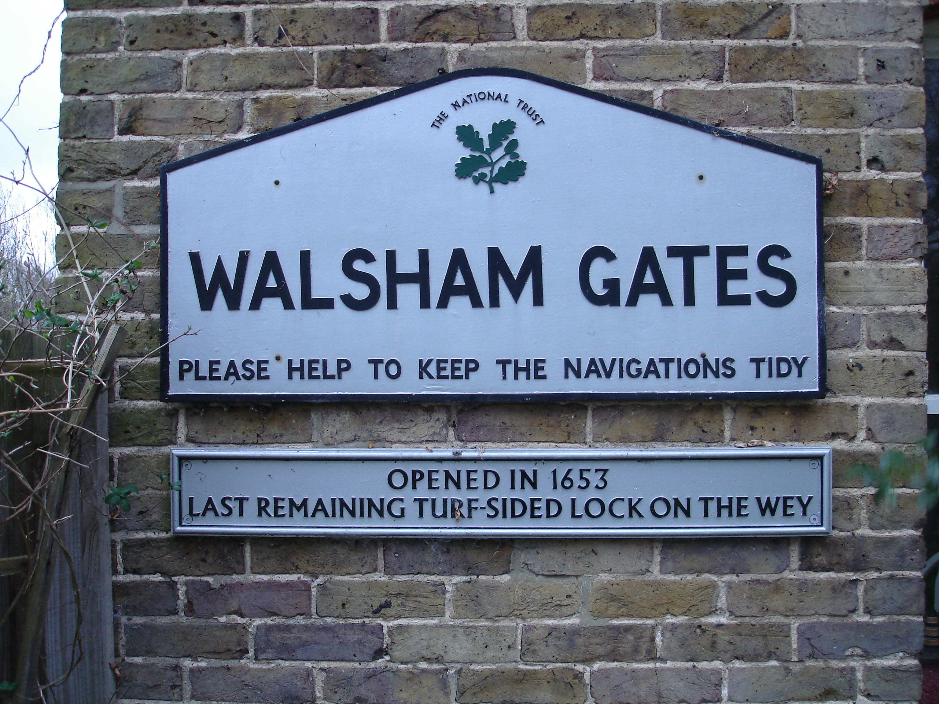 Lock sign at Walsham Gates where the river and canal are divided by a weir. Suzanne Knights, my photo, Jan 2007